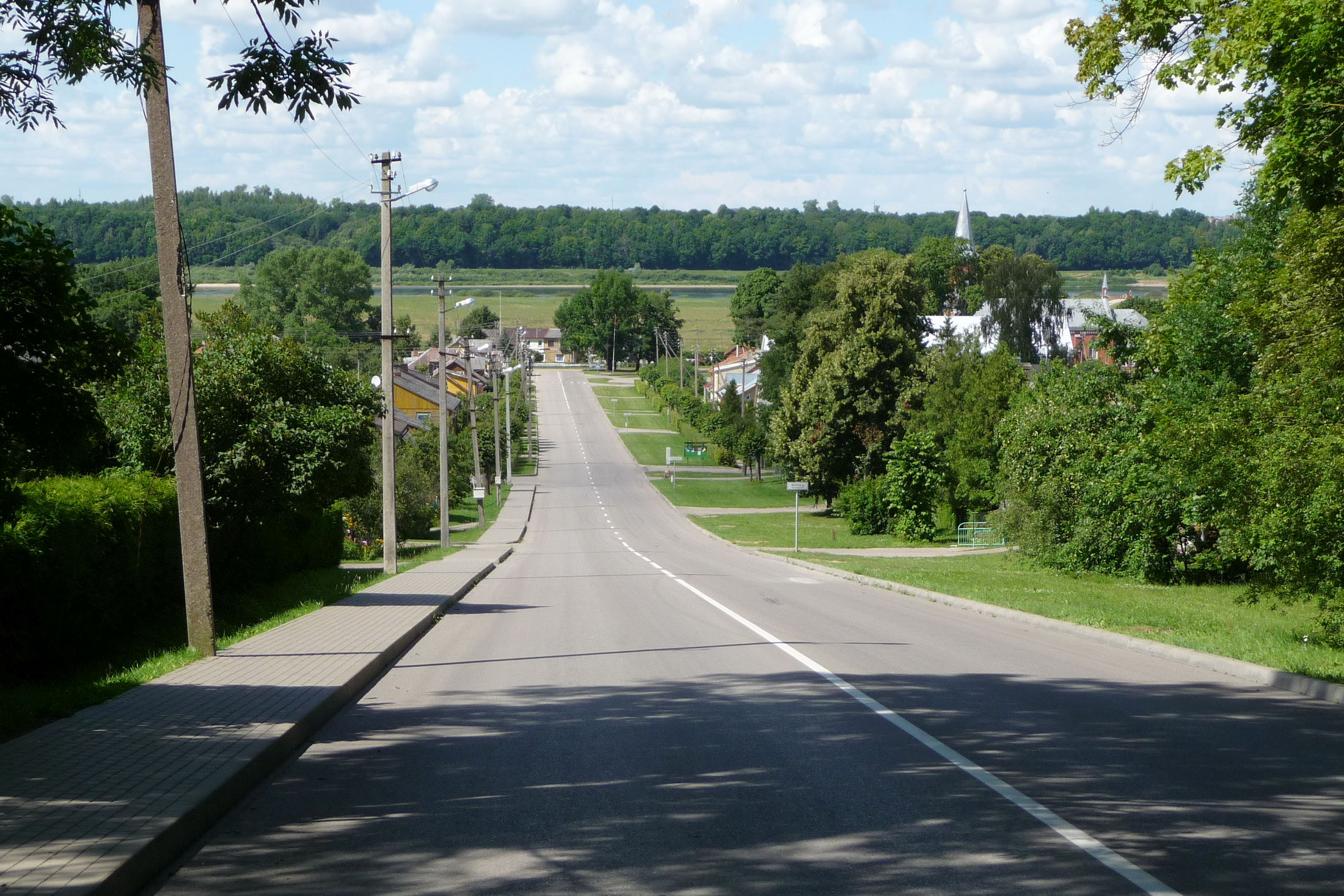 Taikos street in Gelgaudiškis